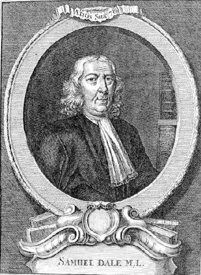 Portrait of Samuel Dale from the fifth edition of Pharmacologia Sen Manuductio and Materiam Medicum, published 1751